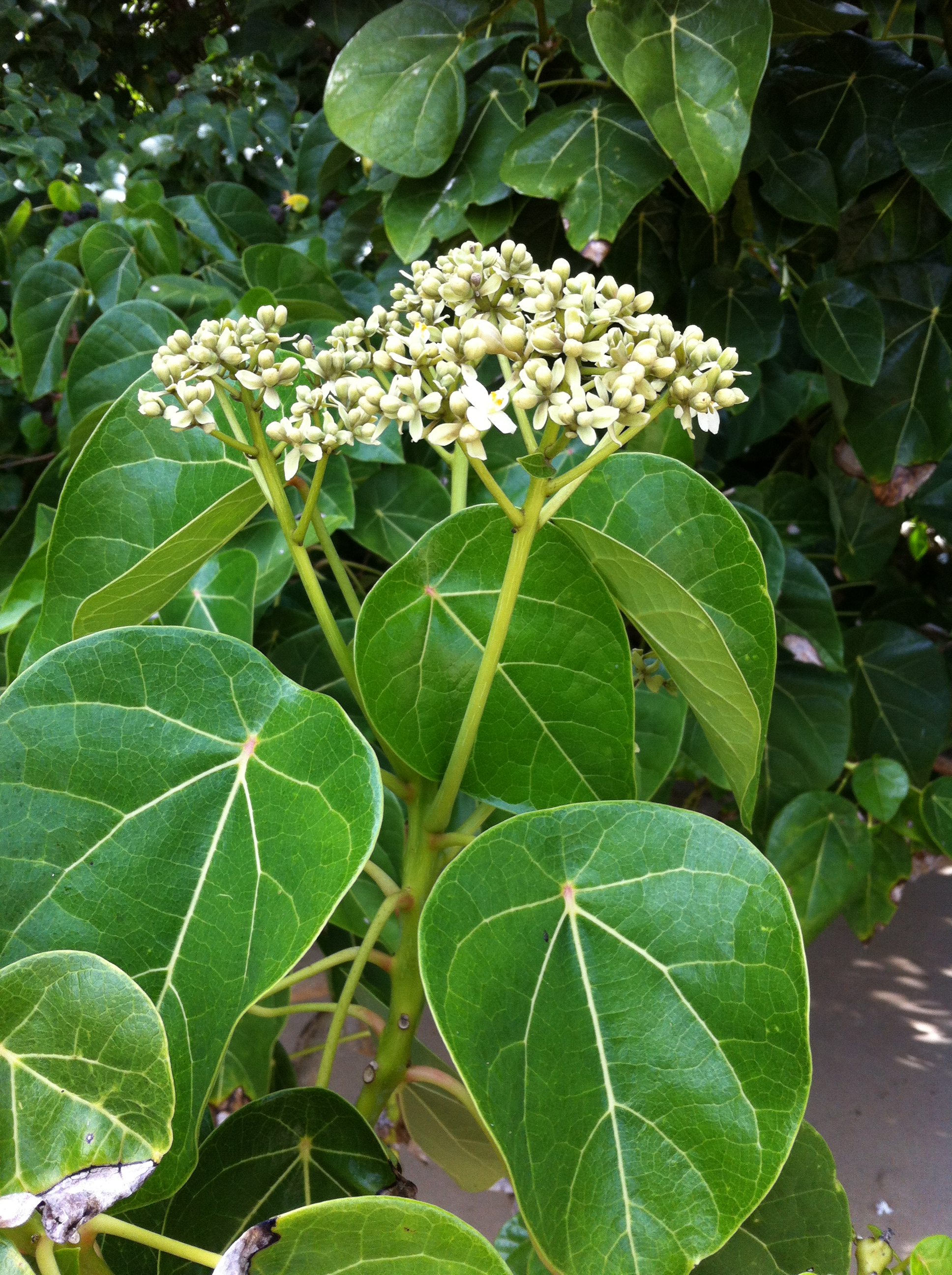 Flowers of Hernandia nymphaeifolia, Lawaki on Beqa Island, Fiji